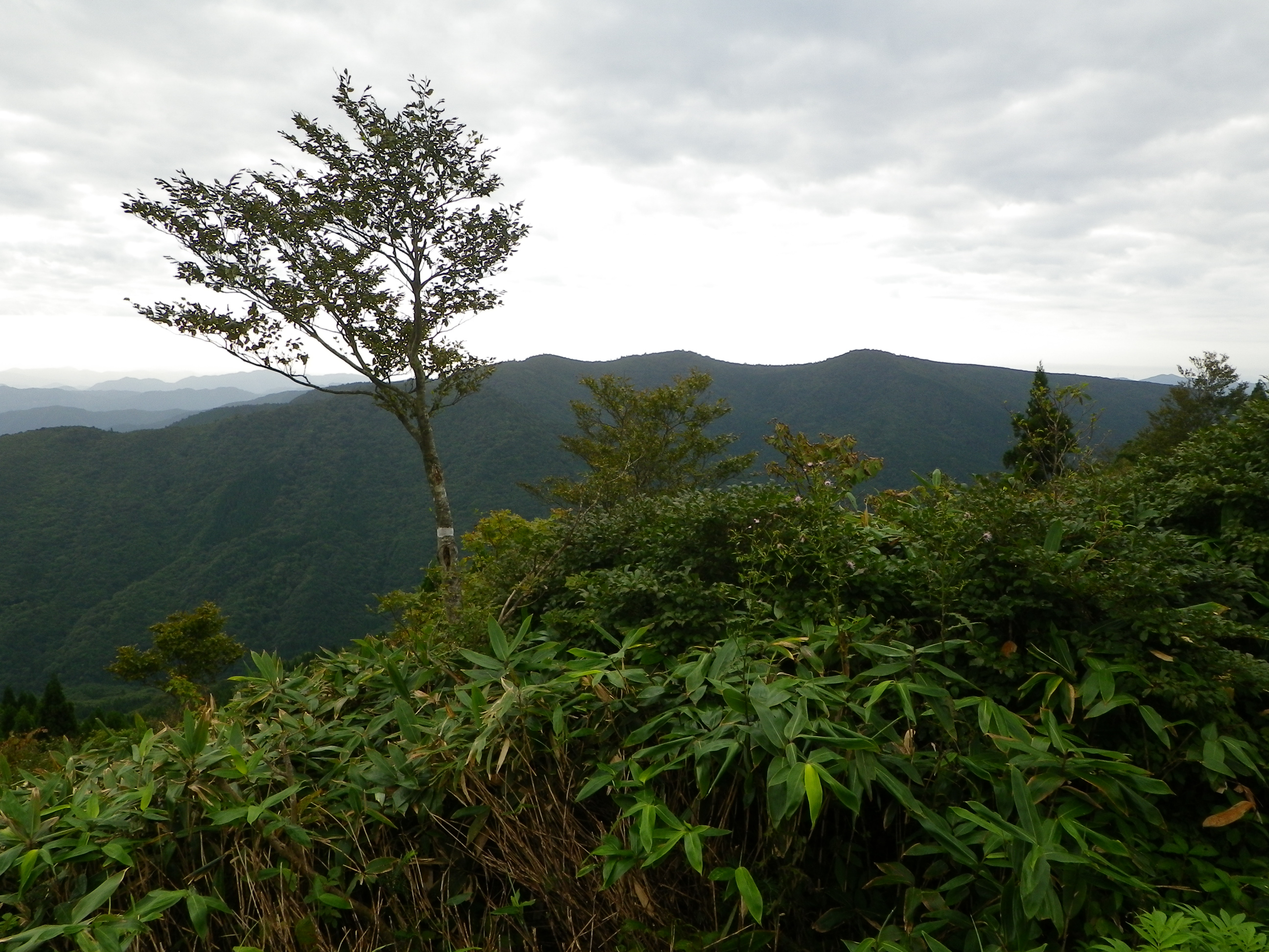 Mt.Jippo (Jippo-zan) as seen from the northwest. Taken from Mount Osorakan.